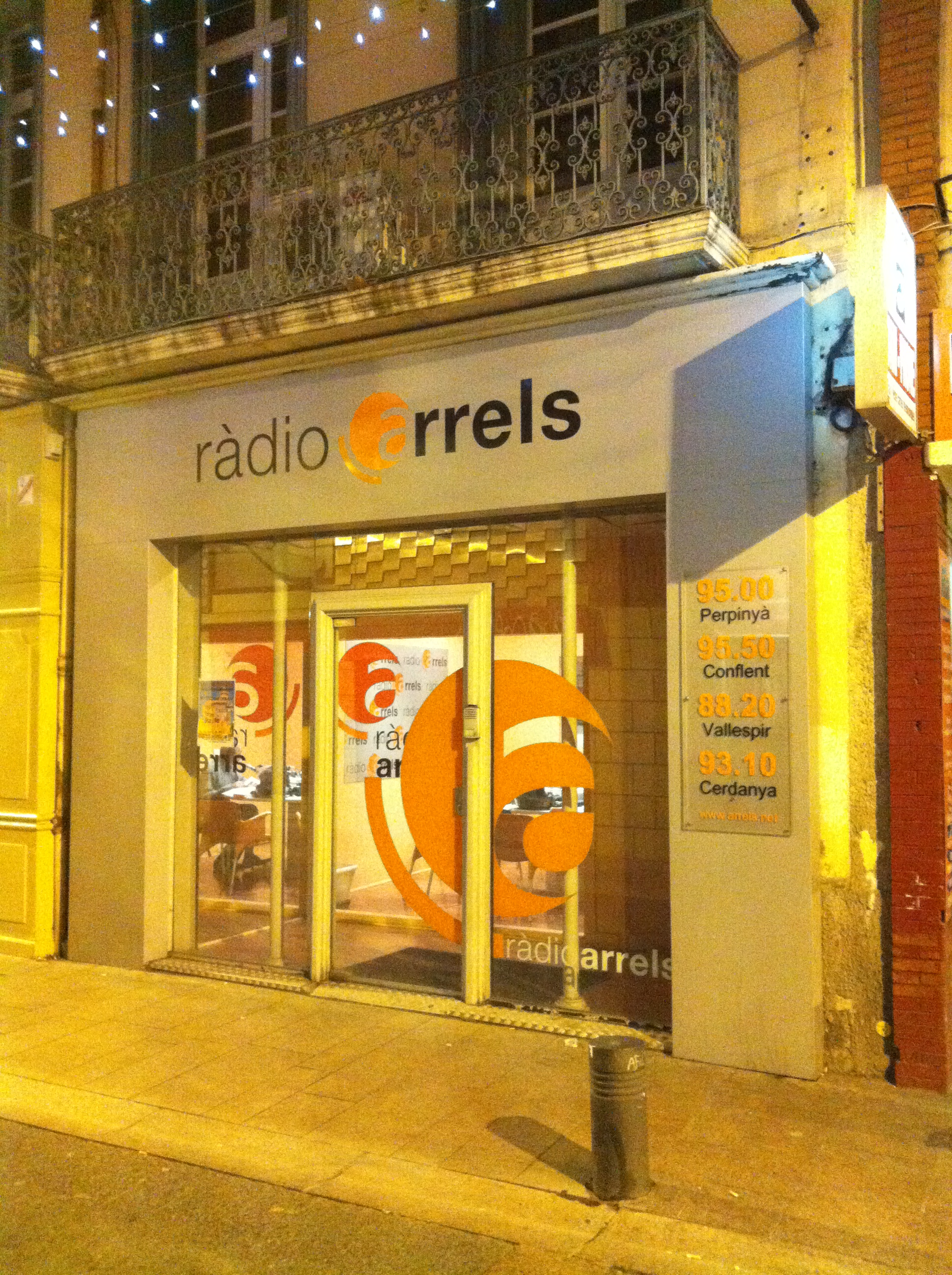 Radio Arrels, a Radio from Perpignan that broadcasts in Catalan